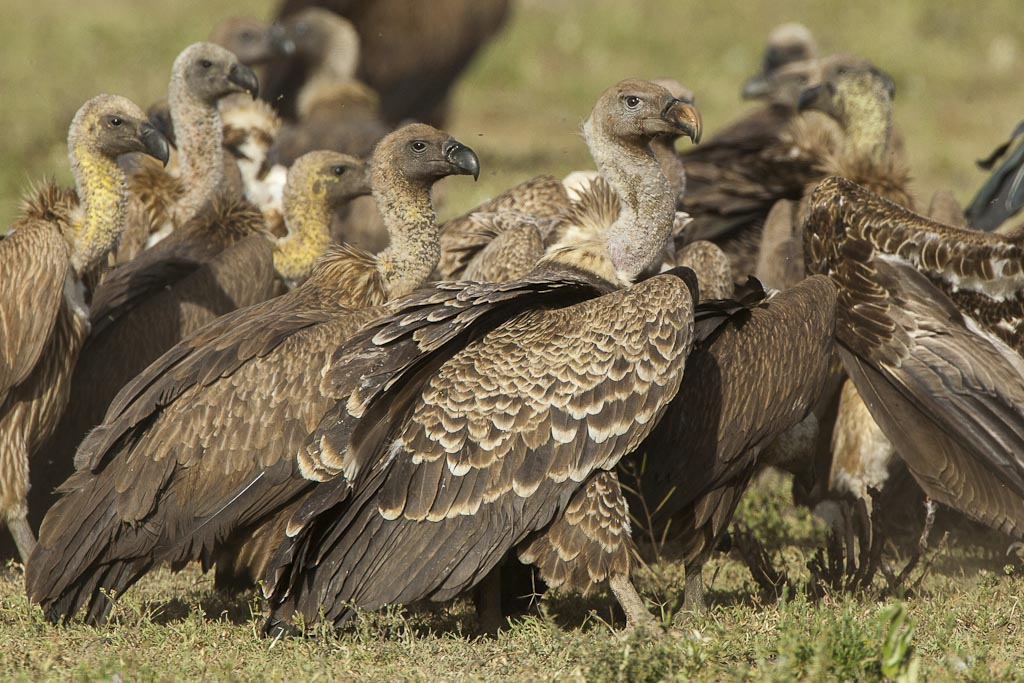 Ruppell's Vulture ( and White-backed ) - Ndutu - Tanzania_0286